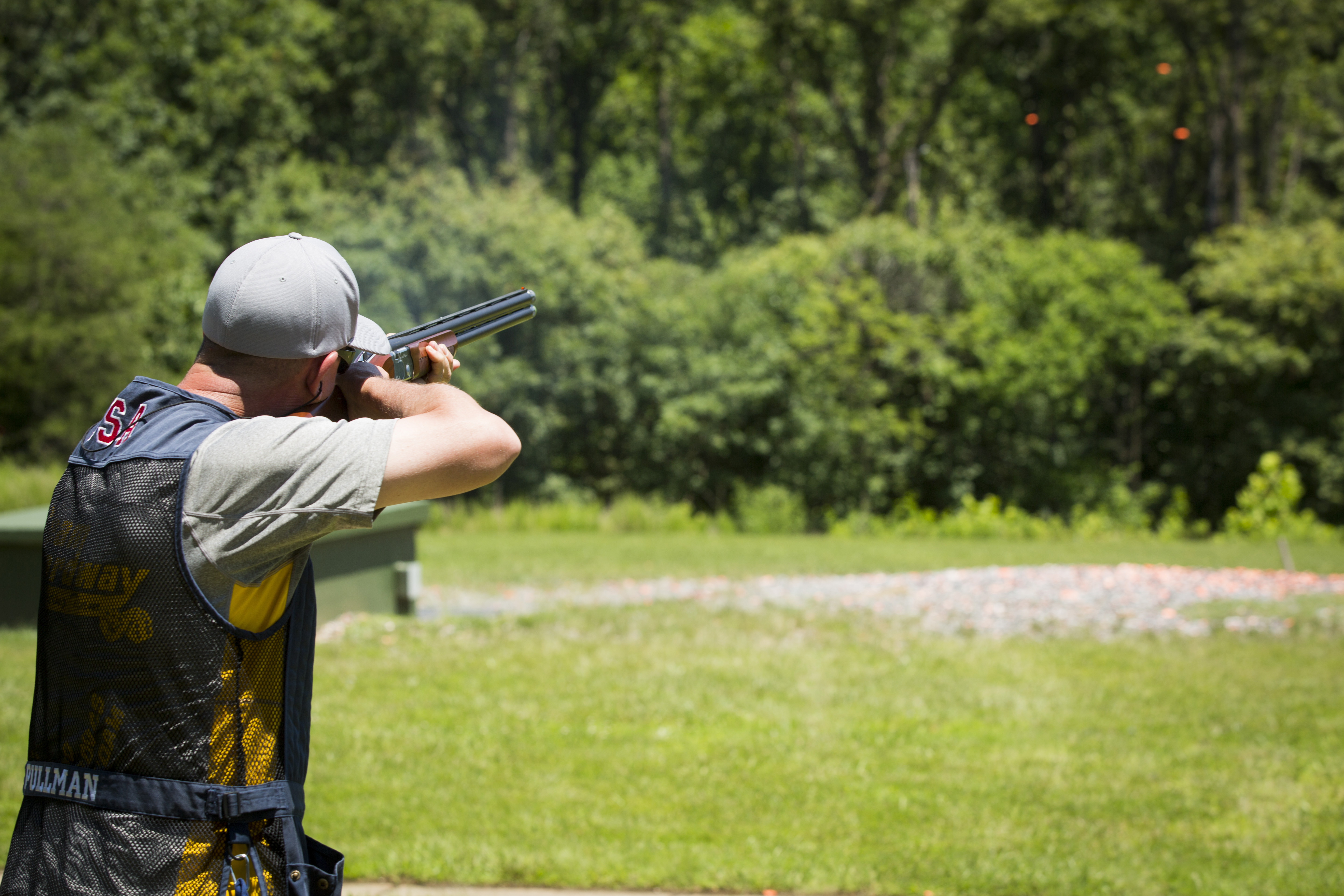 Michael Pullman of CBP's Office of Air and Marine participates in the Trap Shooting event at the World Police and Fire Games in Centreville Virginia. Photo by James Tourtellotte